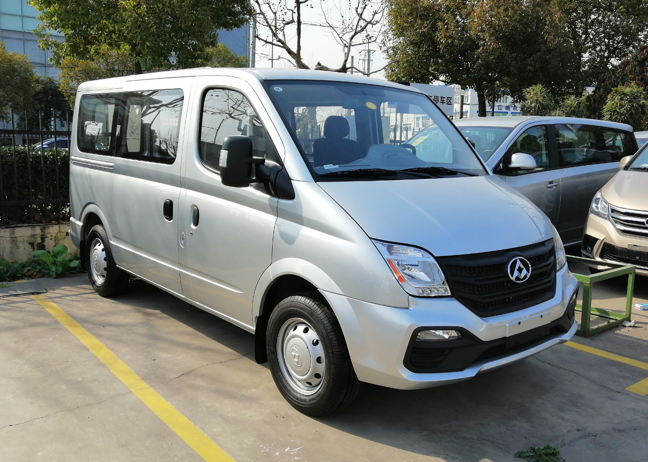 Maxus V80 facelift photographed in Shanghai, China.